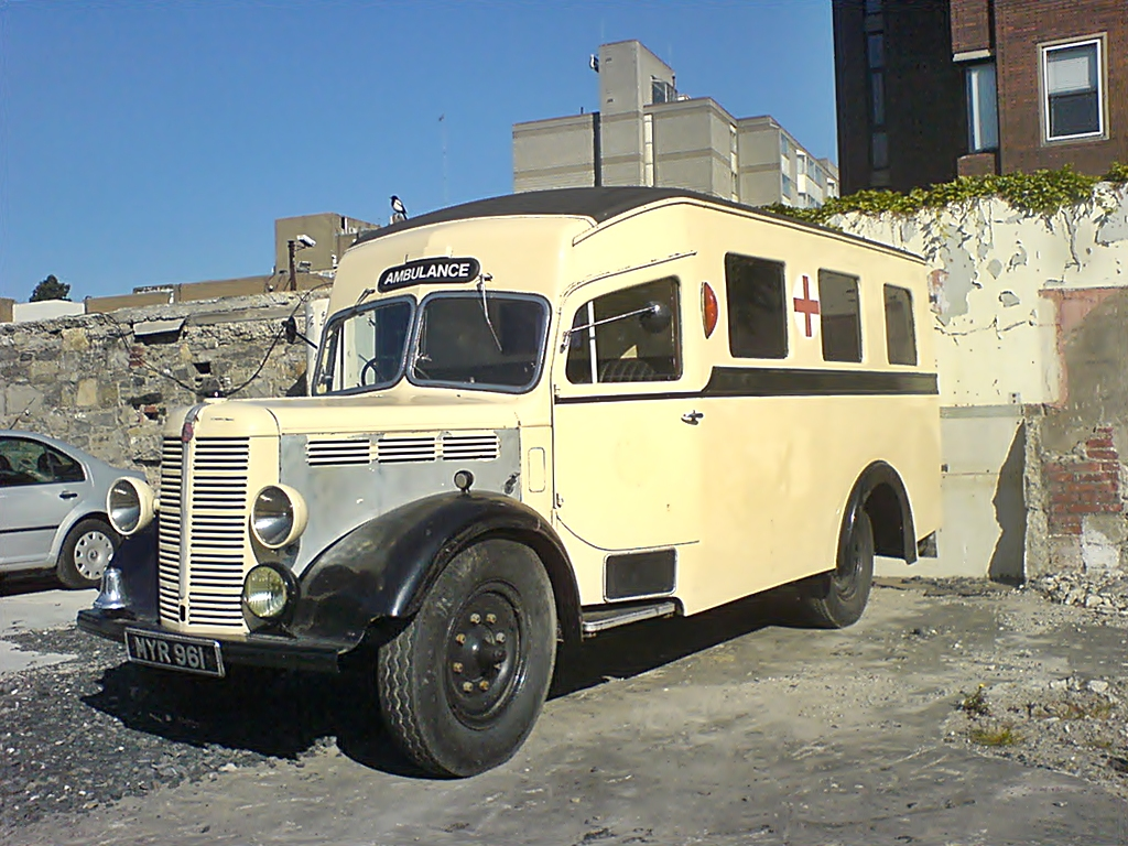 Bedford K-series ambulance, seen in Dublin, Ireland.